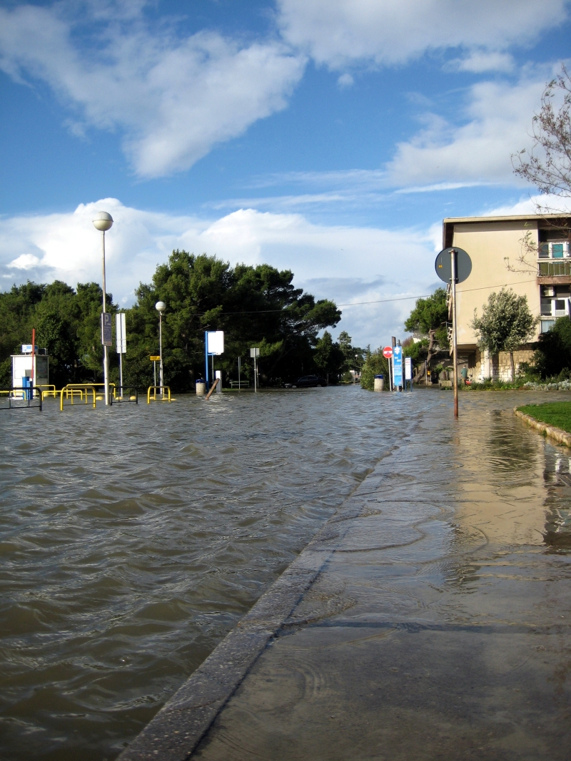 Plima od juga u Crikvenici